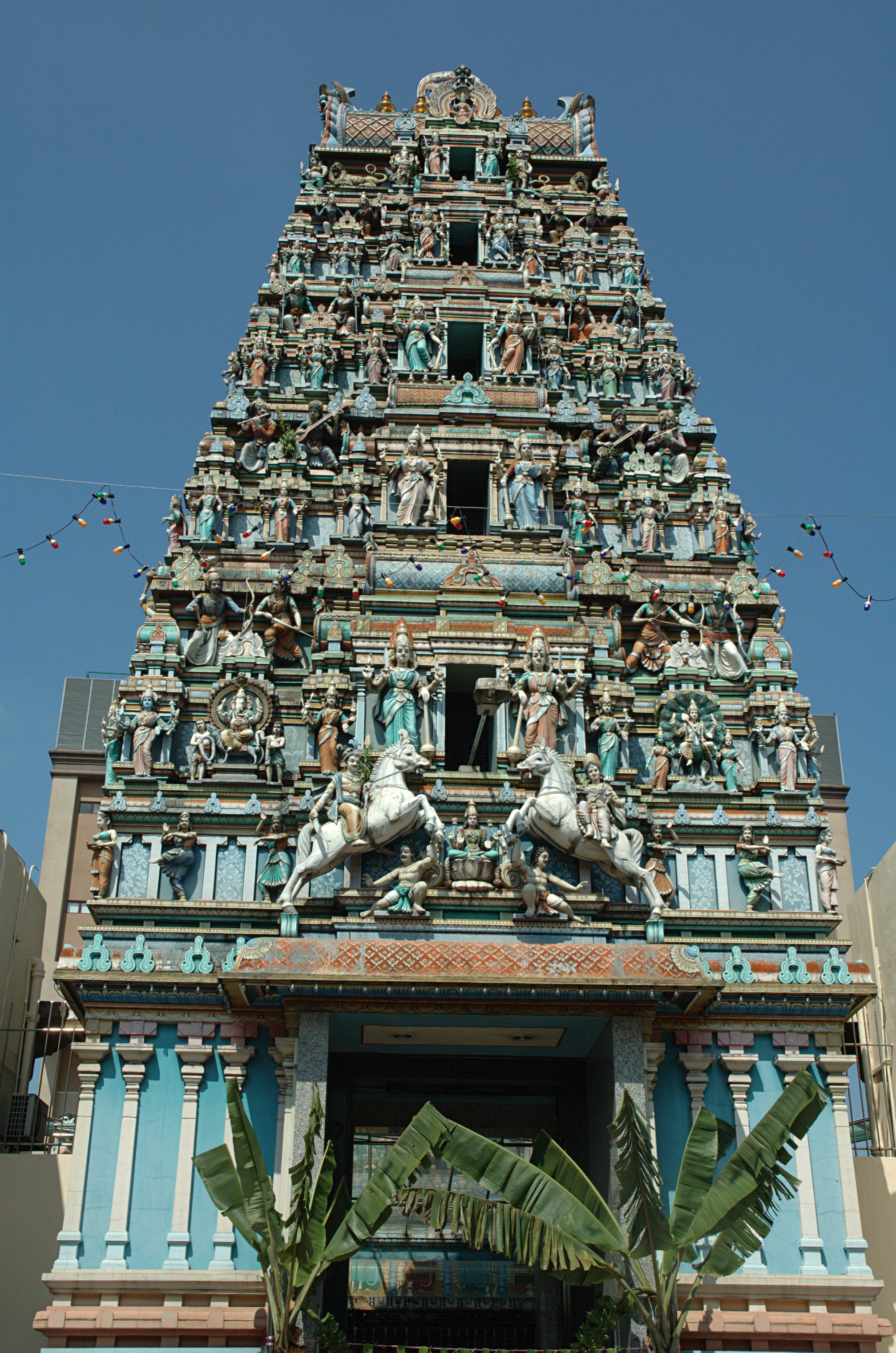 Sri Mahamariamman Temple, Kuala Lumpur